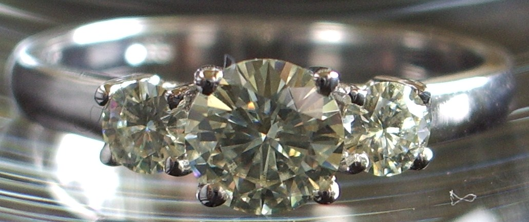 Synthetic Moissanite engagement ring